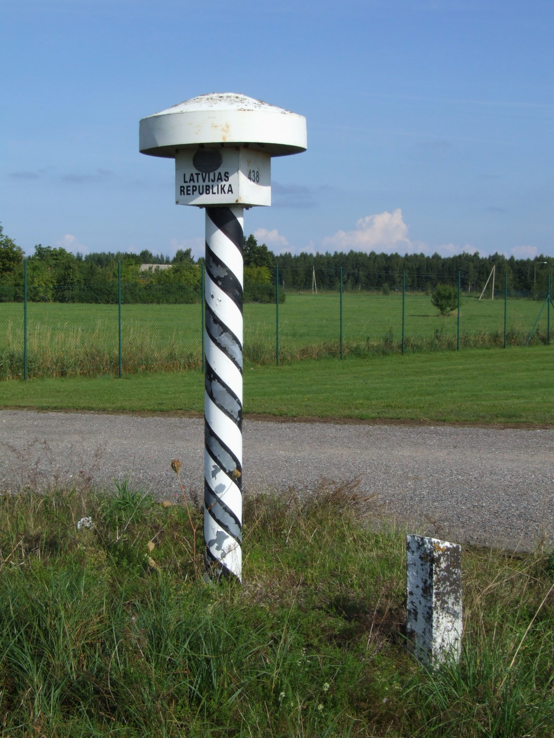 Boundary marker of Latvia